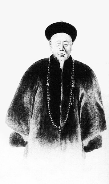 Lian Yuan, politician of the Qing Dynasty.